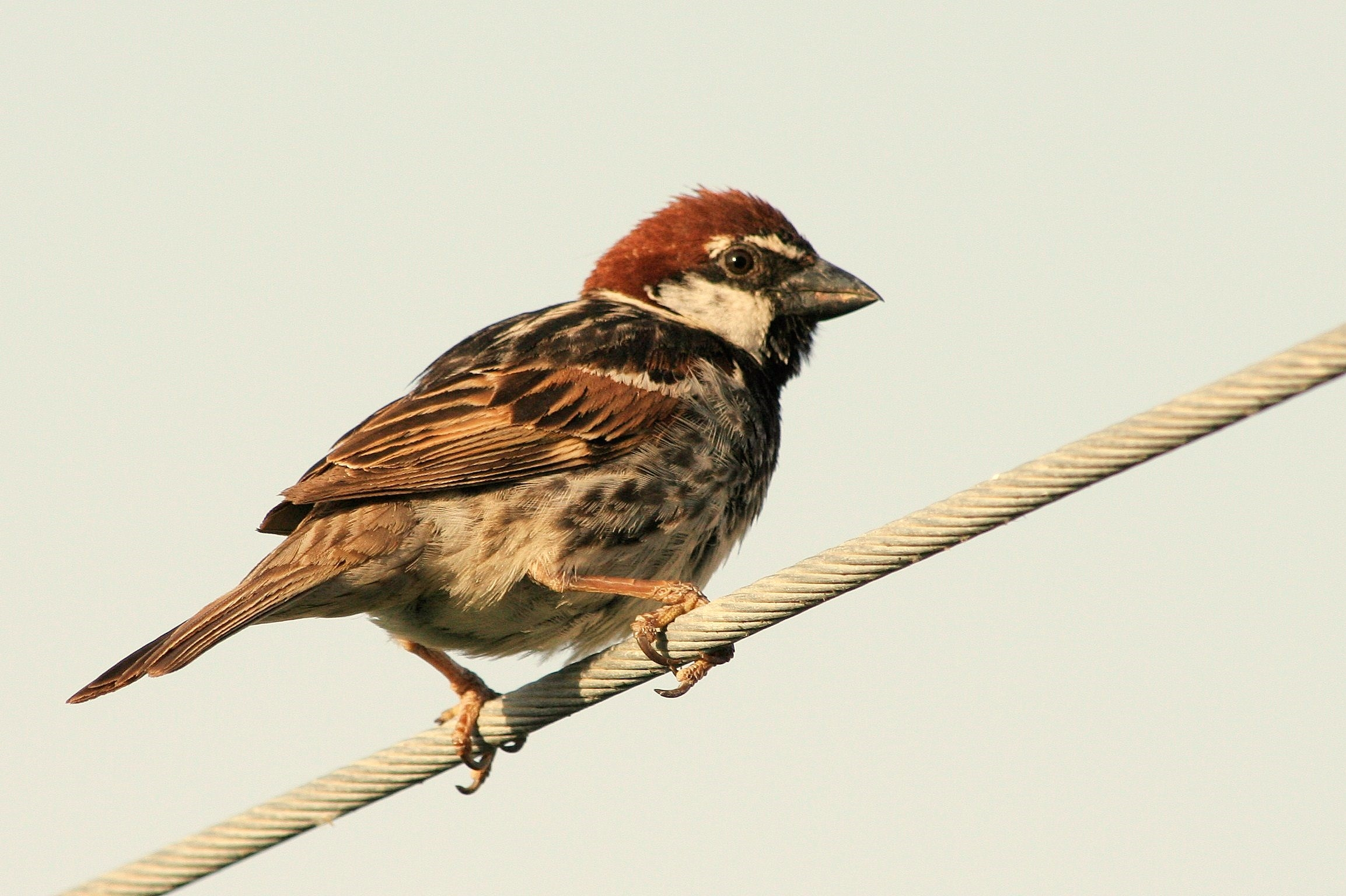 Male Spanish Sparrow in Laerru, Sardinia, Italy